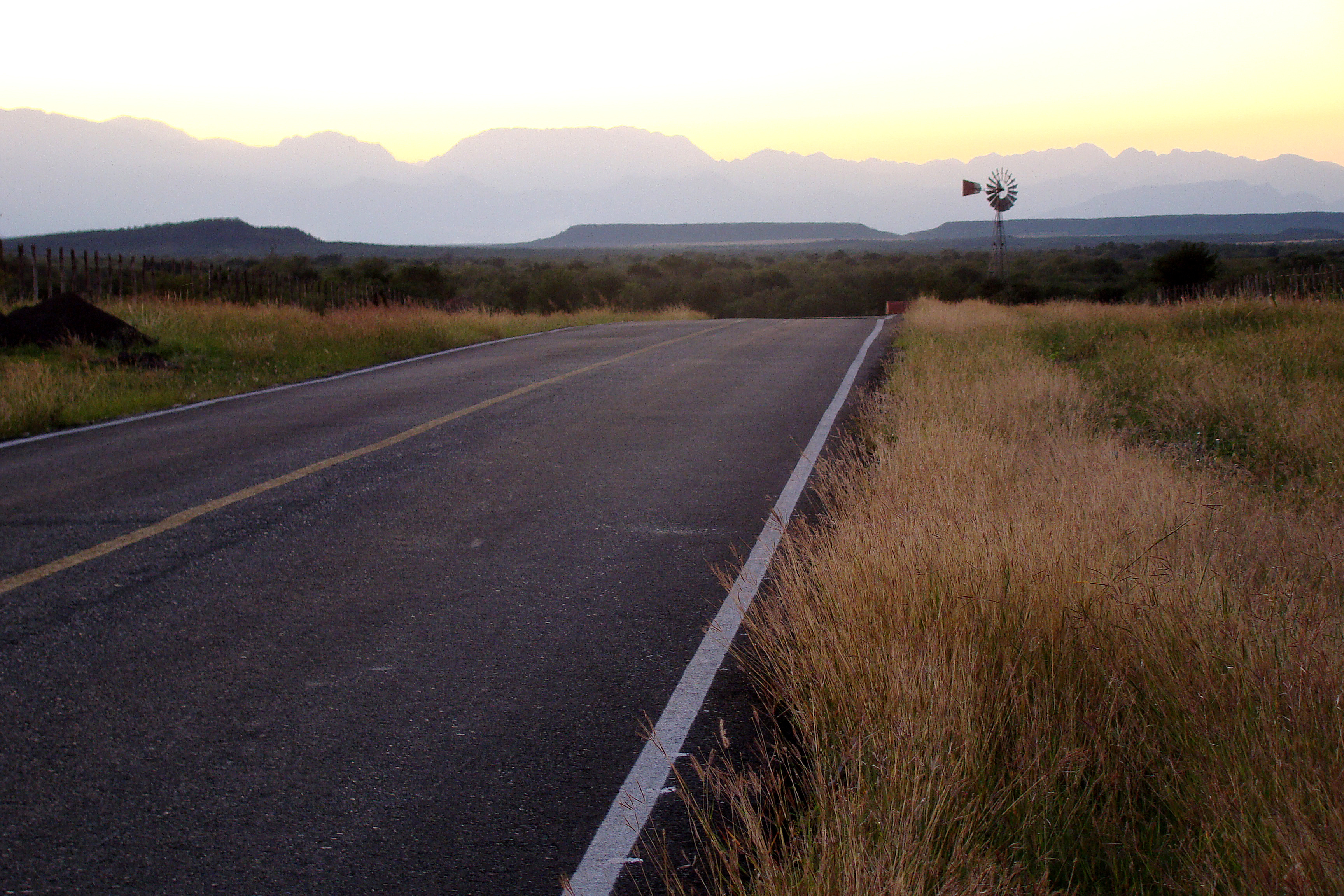 Road to the common (ejido) "La Joya".